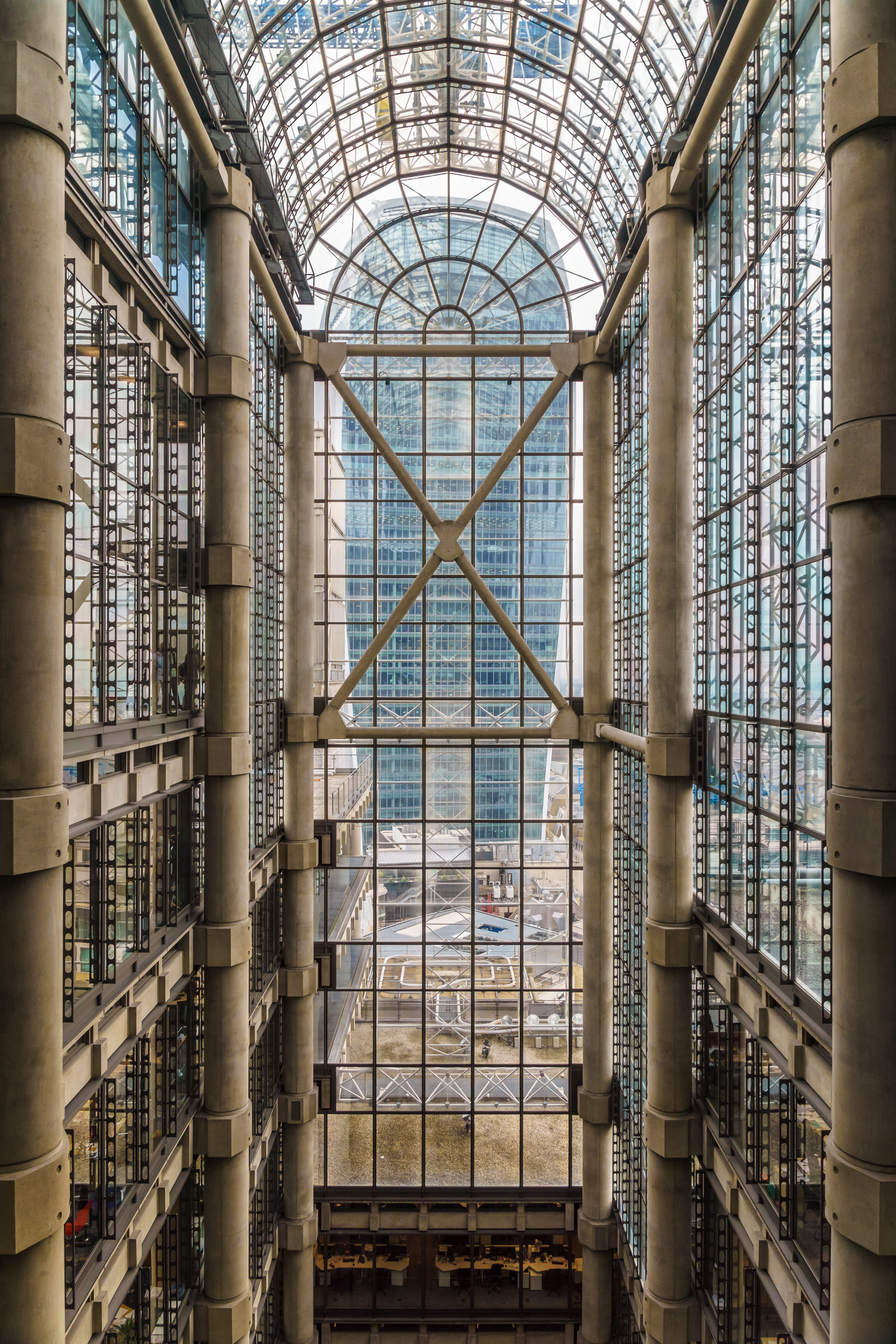 Looking straight ahead, "The Walkie-Talkie" (20 Fenchurch Street) fills the view. Wikidata has entry Q17526935 with data related to this building.